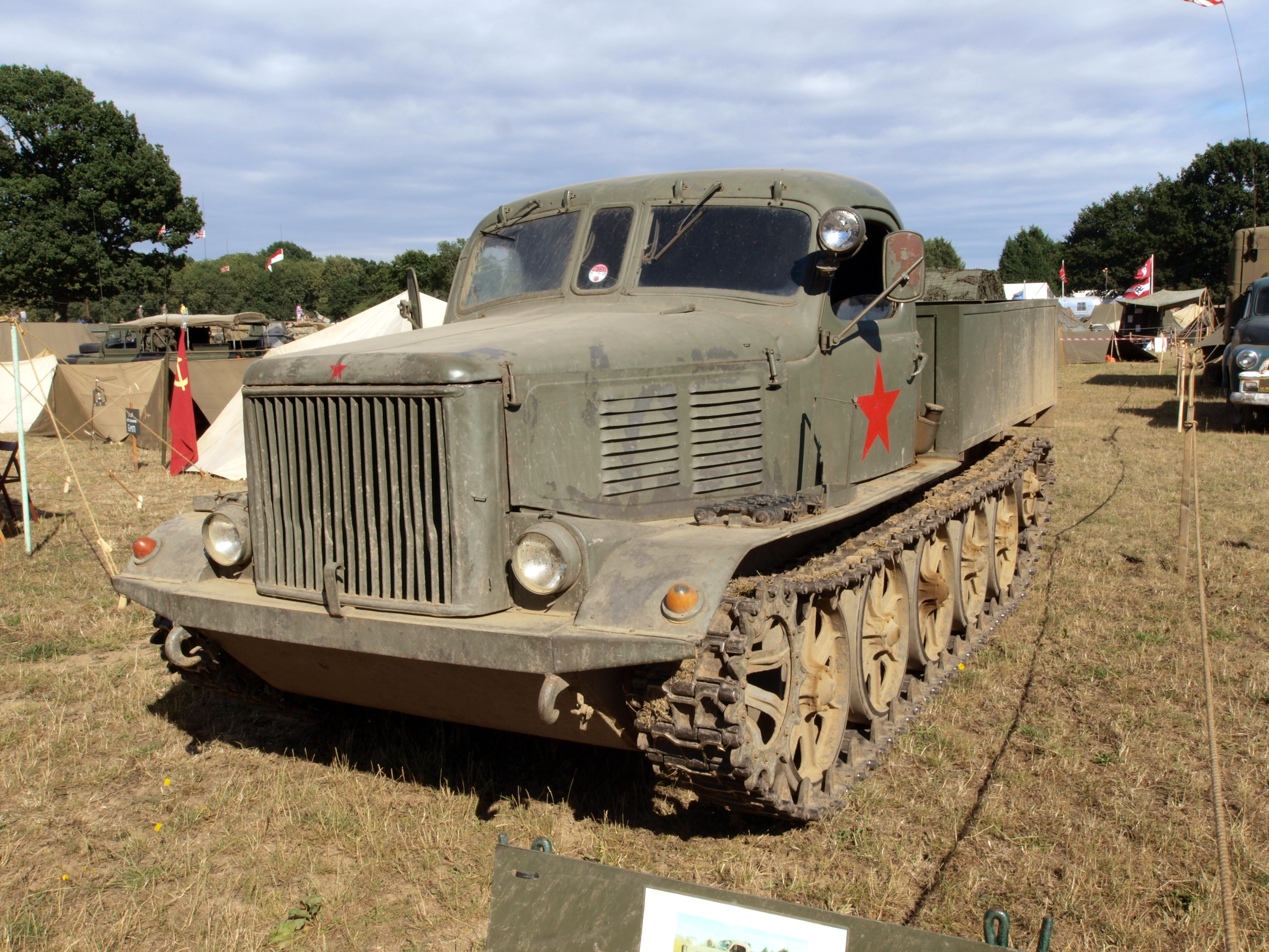 ATLM Gun Tracktor